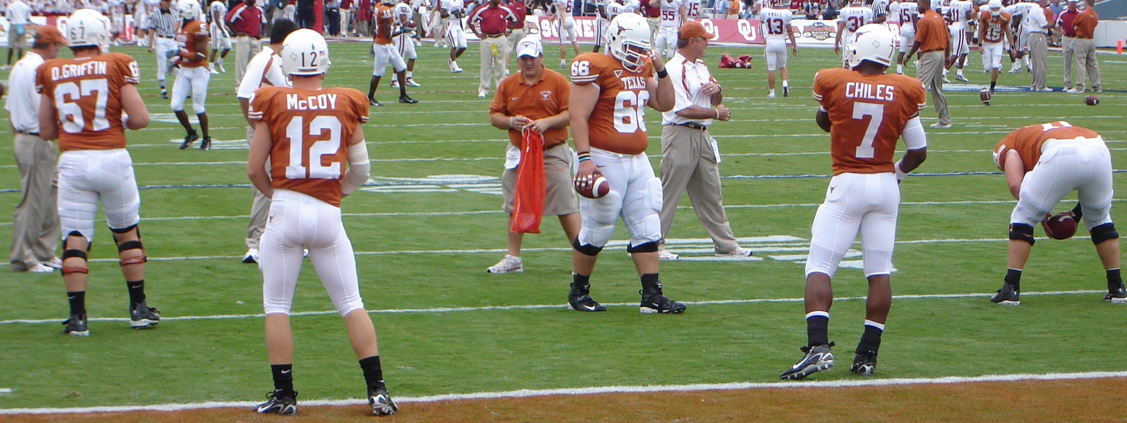 Colt McCoy and John Chiles in warm-ups prior to the 2007 Red River Shootou. See also 2007 Texas Longhorn football team